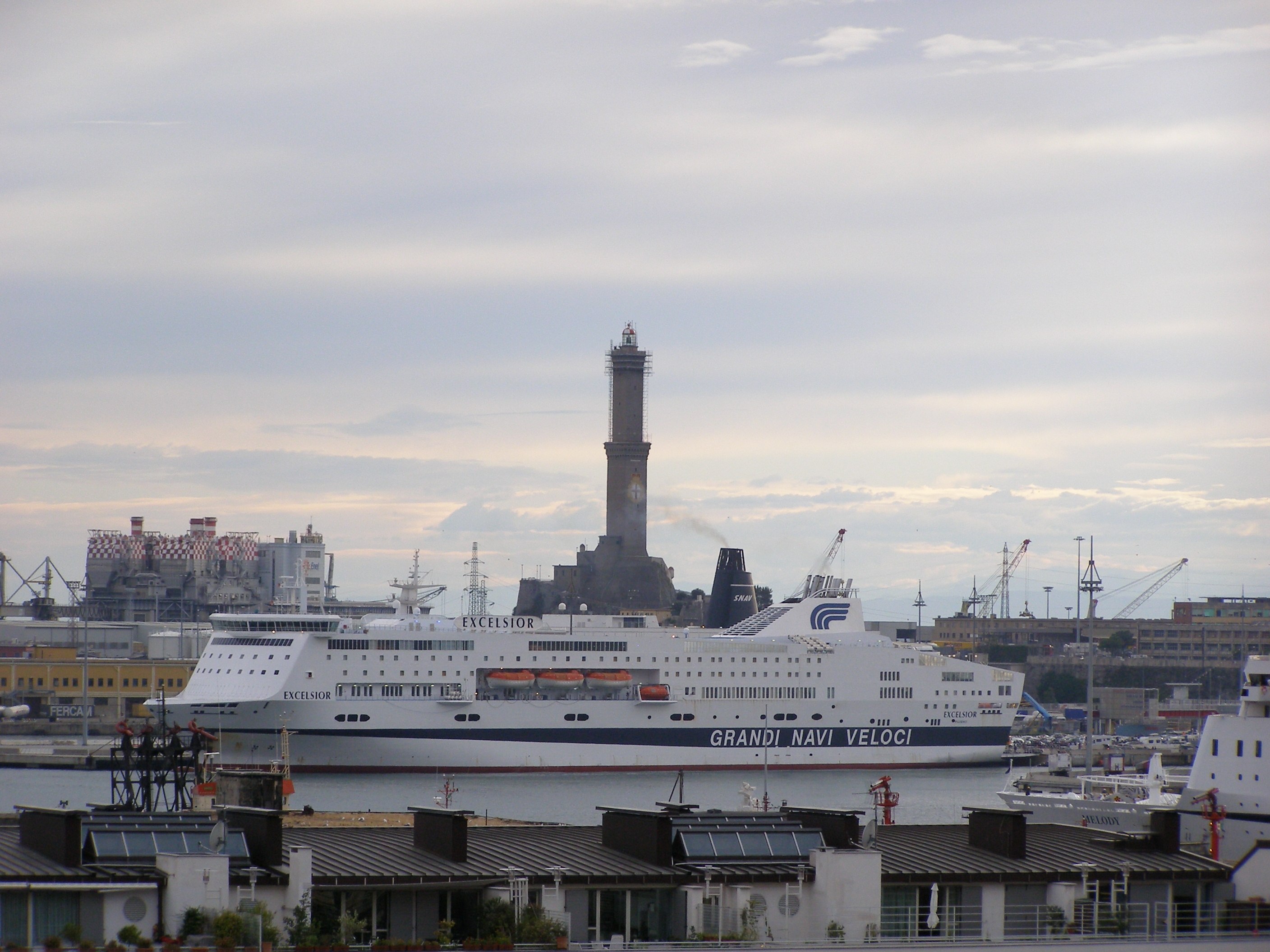 Genoa - Excelsior ferry